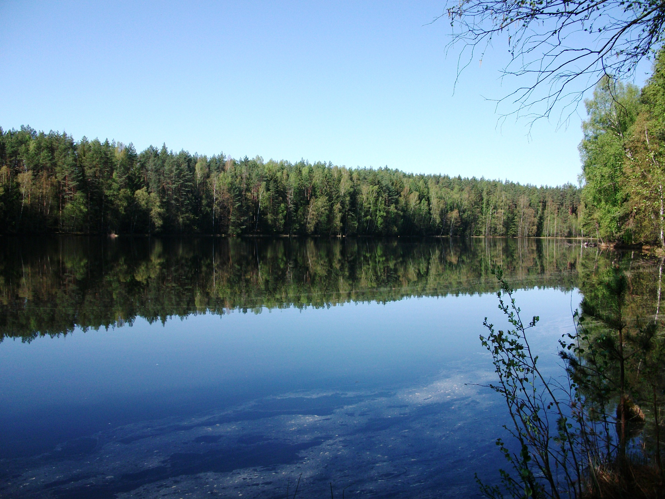 Akuniok Lake, Miadziel district, Belarus